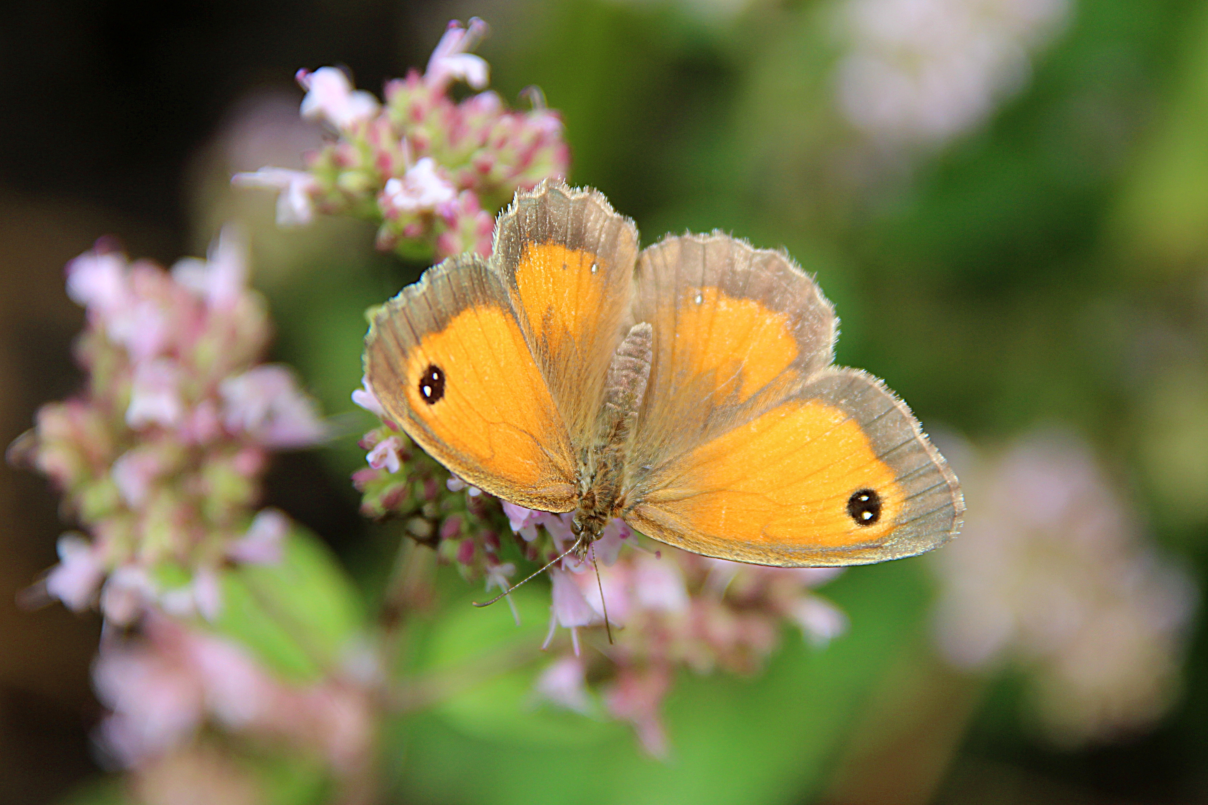 Gatekeeper (butterfly), Pyronia tithonus - Havré (Belgium).